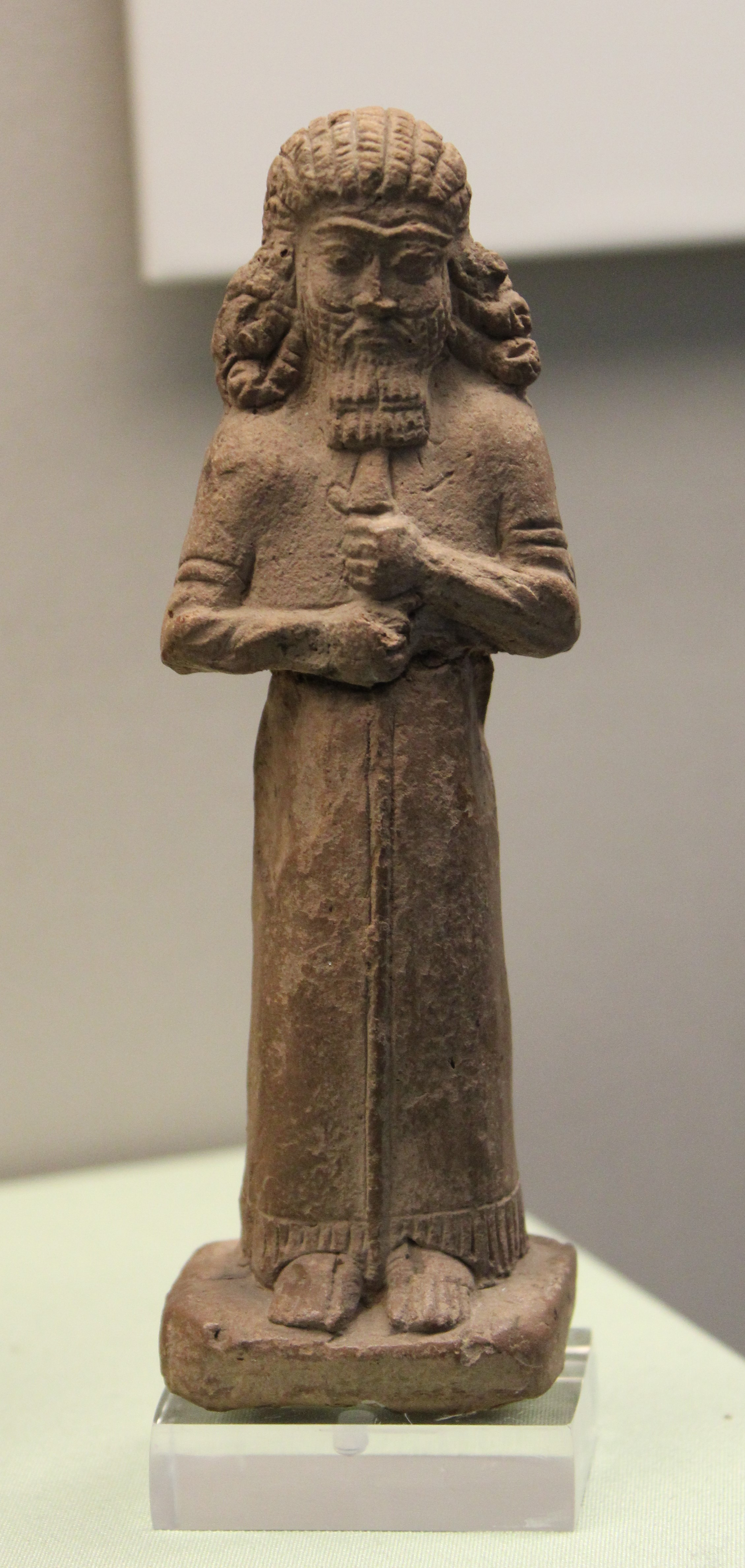 Terracotta figure representing Lahmu, a minor god associated with the god Ea. According to ritual texts, this type of figure was meant to be buried in the corners of rooms or courtyards. From Nineveh, Neo-assyrian period (900-612 BC). ME 90996.